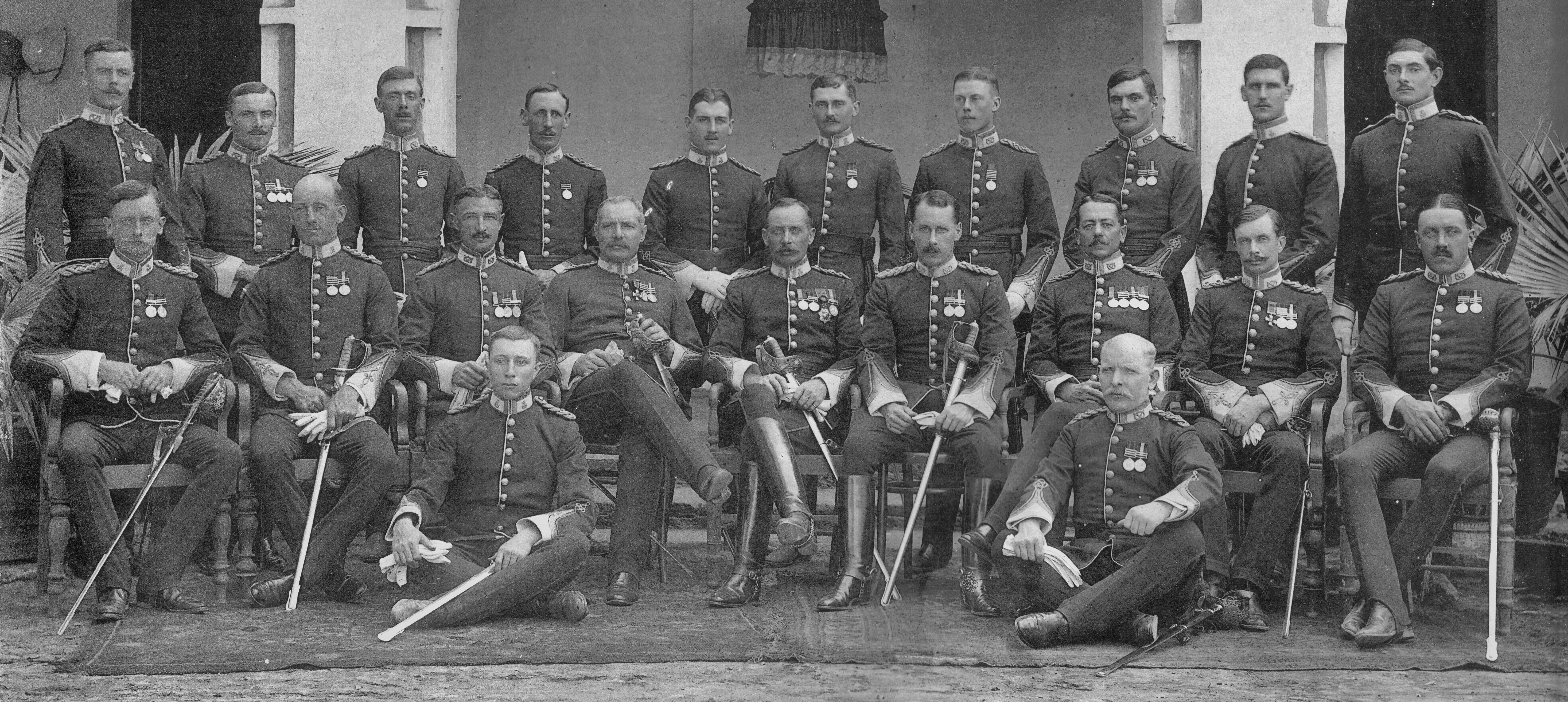 Officers of the 2nd Battalion The Prince of Wales (North Staffordshire Regiment) outside the officers mess Multan, India 1908. Standing (from left to right); Lt E. M. Steward, Lt R. A Bradley, Lt H. H. Caffyn, Lt H. Etlinger, 2nd Lt A. Punchard, Lt H. V. R. Hodson, Lt C. A. W. Anderson, Lt N. Mosley, 2nd Lt B. S. Stone, 2nd Lt H. C. Bridges Seated; Capt H. H. Hughes-Hallett, Capt G. H. Hume Kelly, Capt J. J. B. Farley, Major W. A. Barnett D.S.O., Lt-Col H. Marwood, Lt & Adt C. H. Lyon, Capt F. E. Johnston, Capt H. C. Tweedie D.S.O., Lt J. H. Ridgway Seated on ground; 2nd Lt A. F. A. Hooper, Lt & Qr-Mr T. E. Lowther